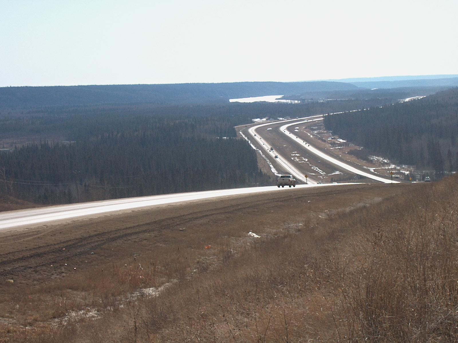 Alberta Hwy 63, North of Fort McMurray. Facing south. Looking down to hill called "Supertest", long 7% grade, hard on heavy bigrigs.